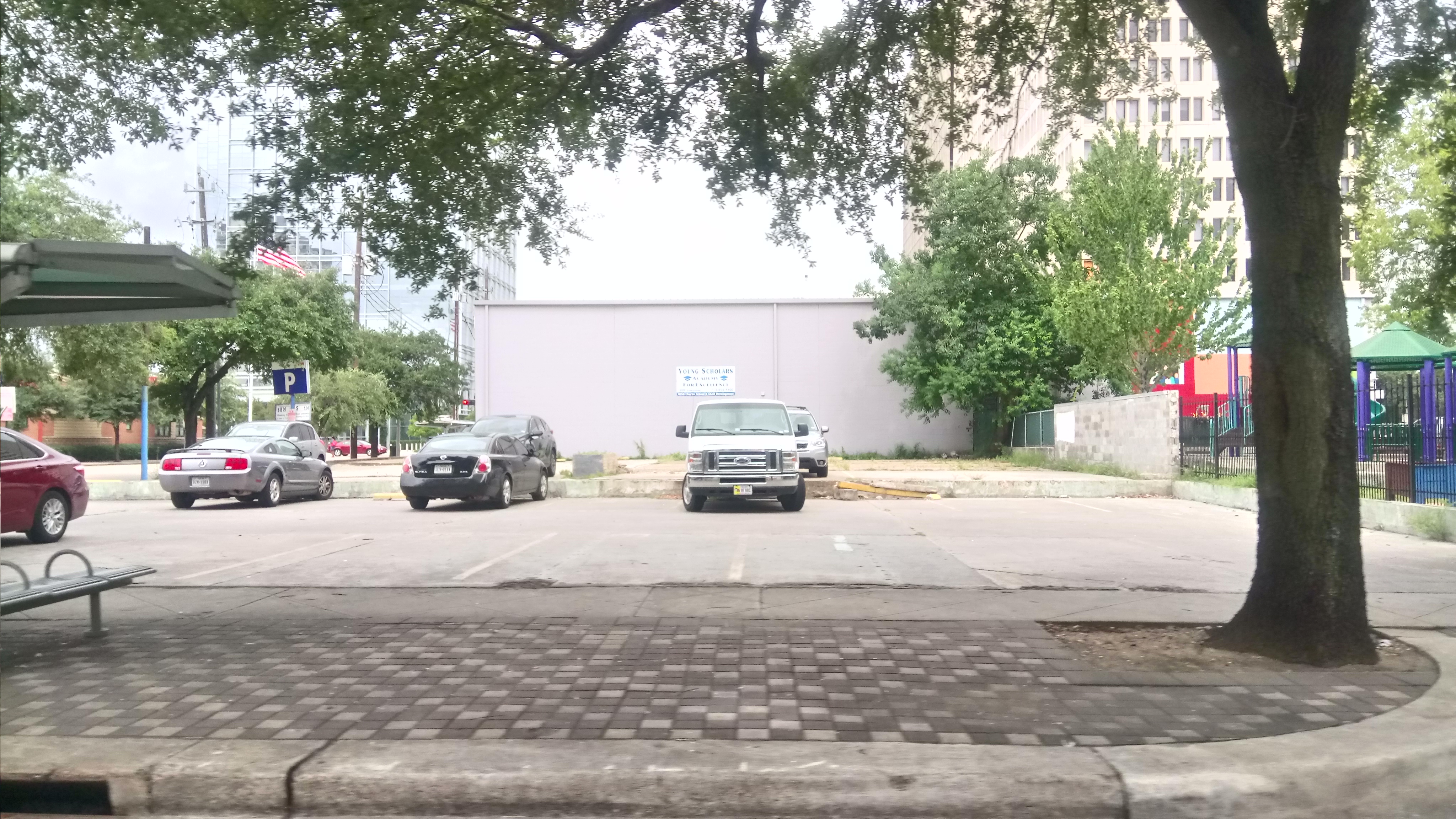 Young Scholars Academy for Excellence (YSAFE)